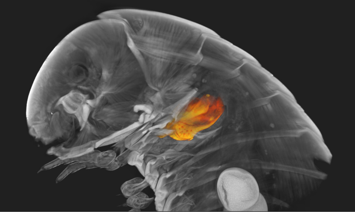 Ommatoiulus avatar. 3D virtual dissection of the paratype, depicting vulvae in situ. Parasagittal cut.